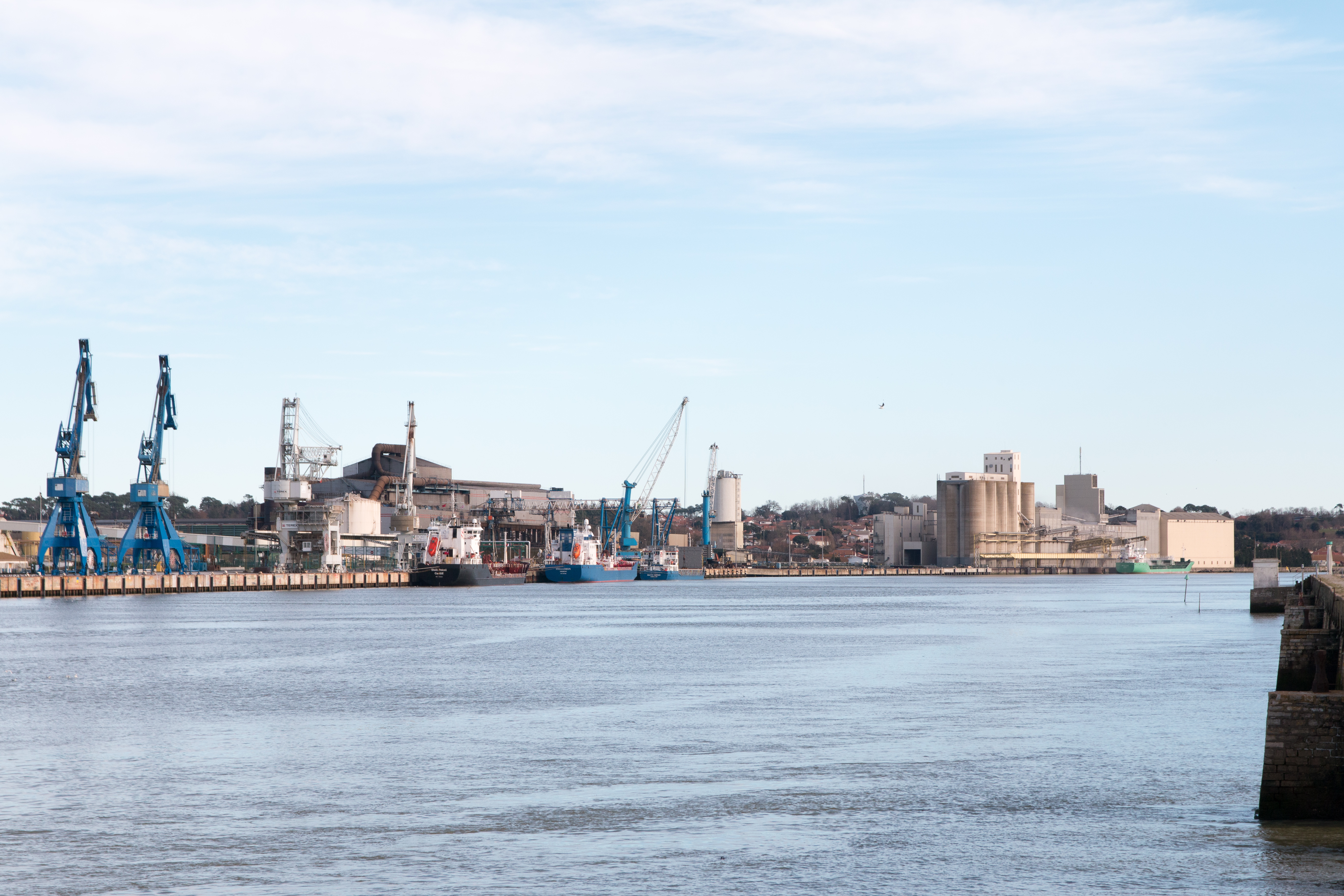 Steel mills of the Atlantic (43°31′34.2″N 1°29′48″W / 43.526167°N 1.49667°W) and corn silos Boucau (43°31′27.1″N 1°29′34.4″W / 43.524194°N 1.492889°W).